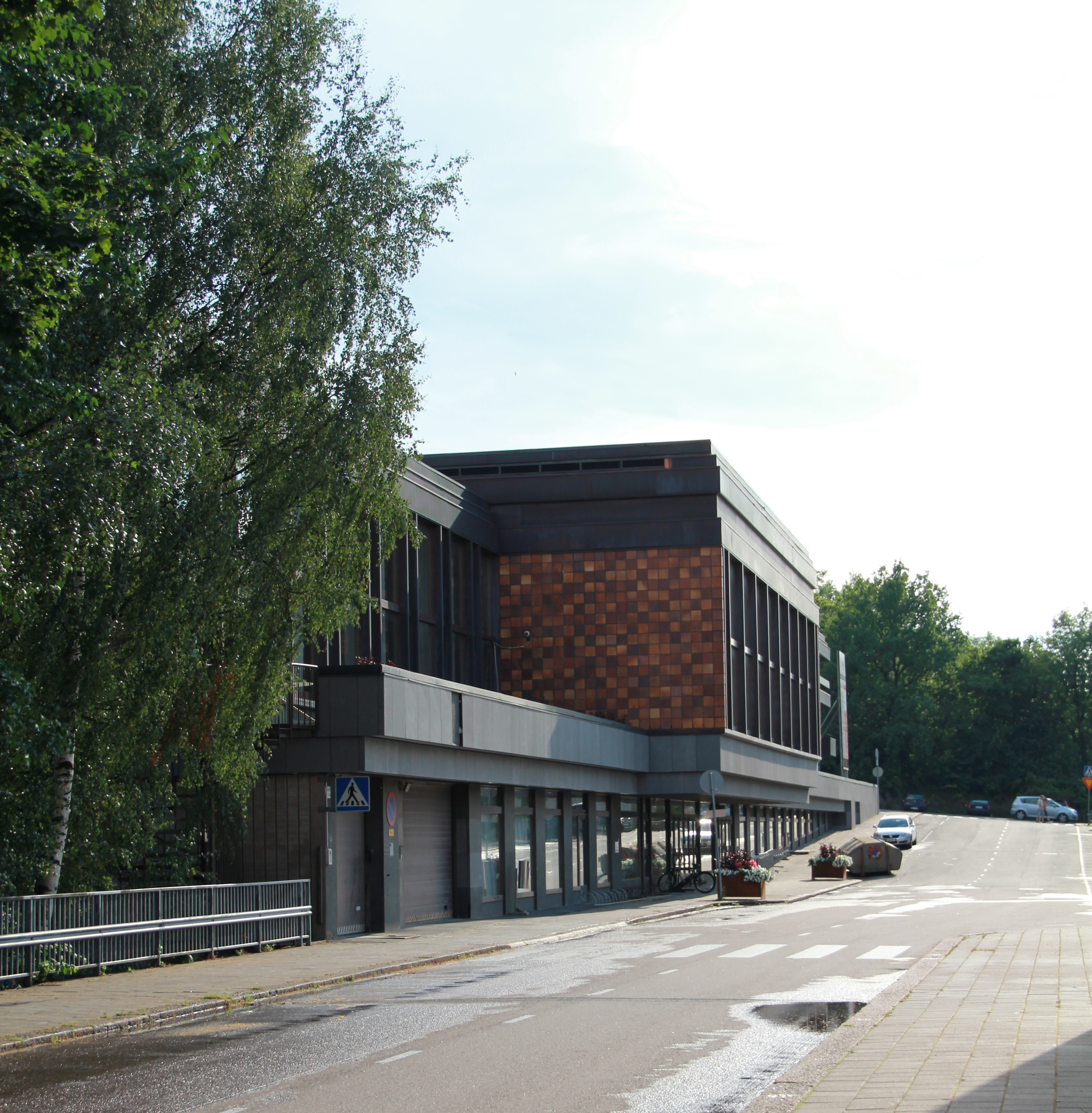 Government Administarative building, Turku, Finland. Architects Risto-Veikko Luukkonen and Helmer Stenros. Completed 1967. Northern elevation.